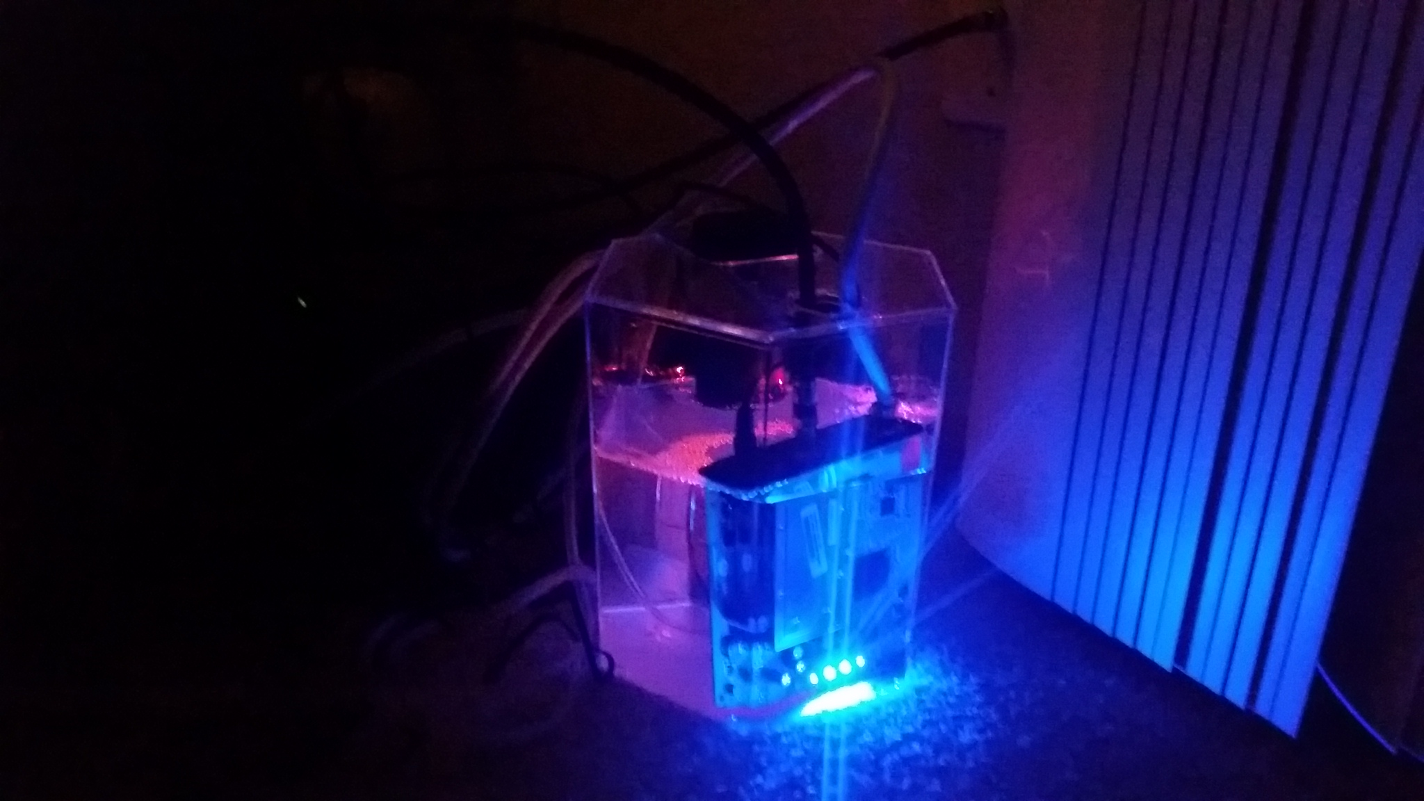 Mineral Oil Liquid Cooled Motorola Cable Modem